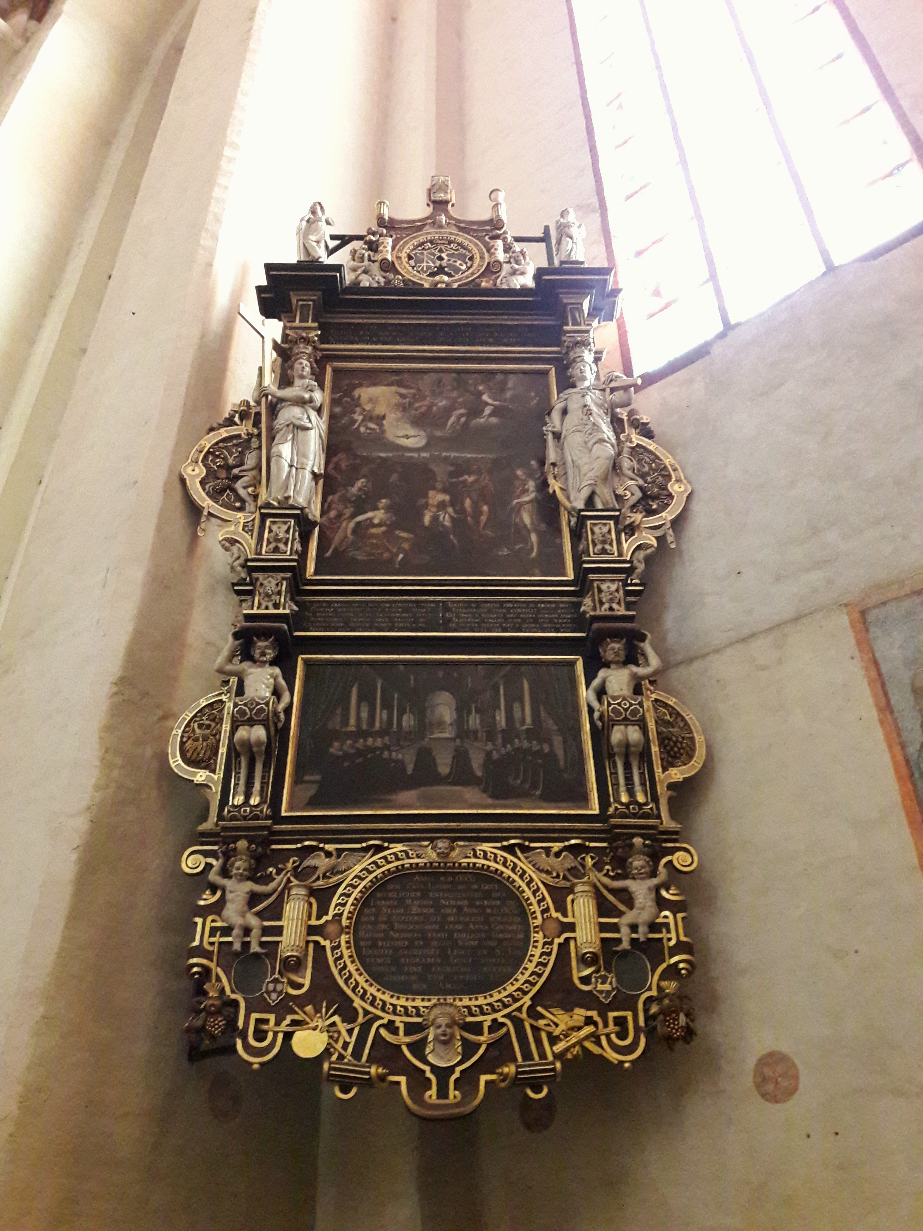 Interior of the Church of the Assumption in Toruń.